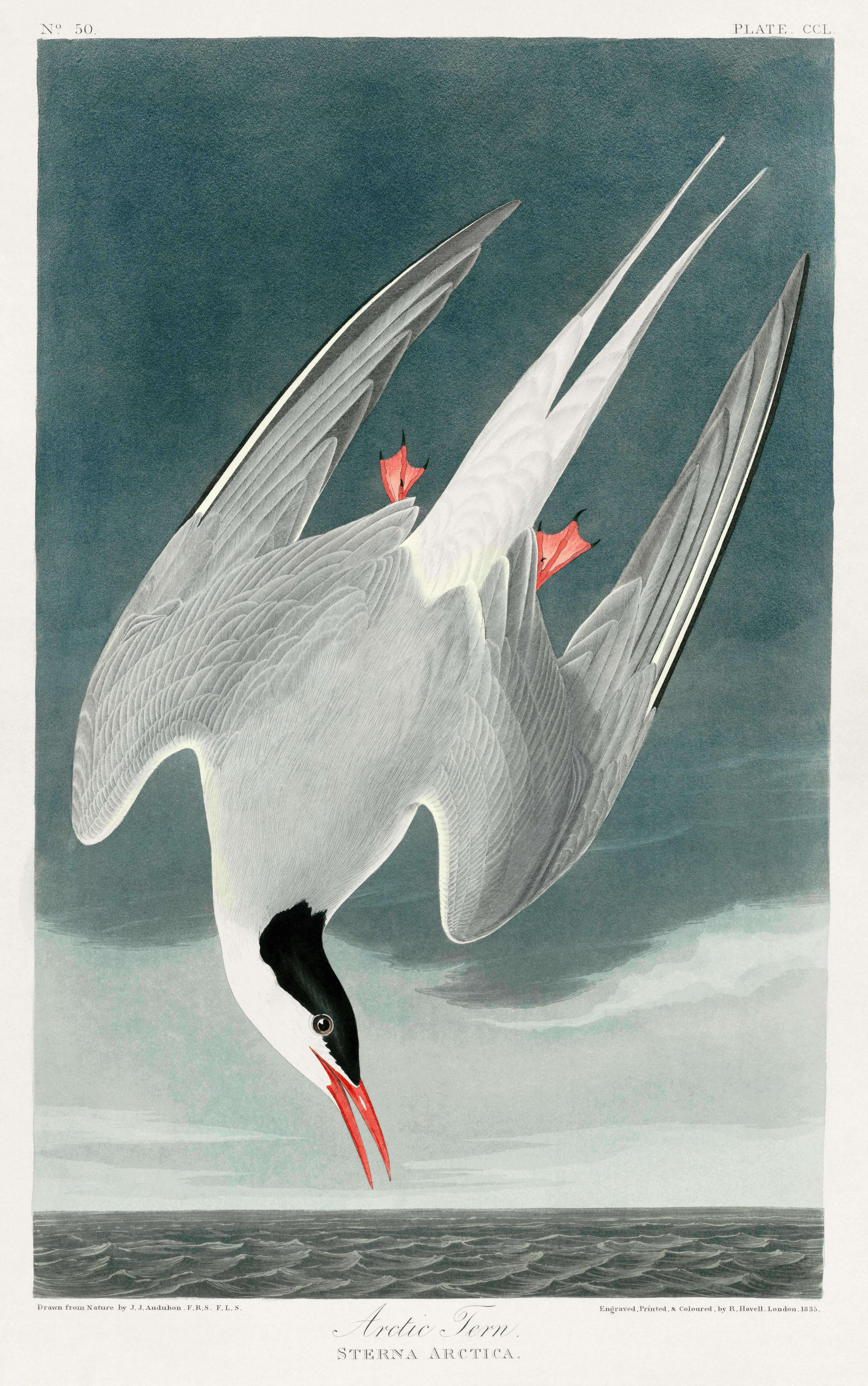 plate 250 of Birds of America by John James Audubon depicting Arctic Tern.